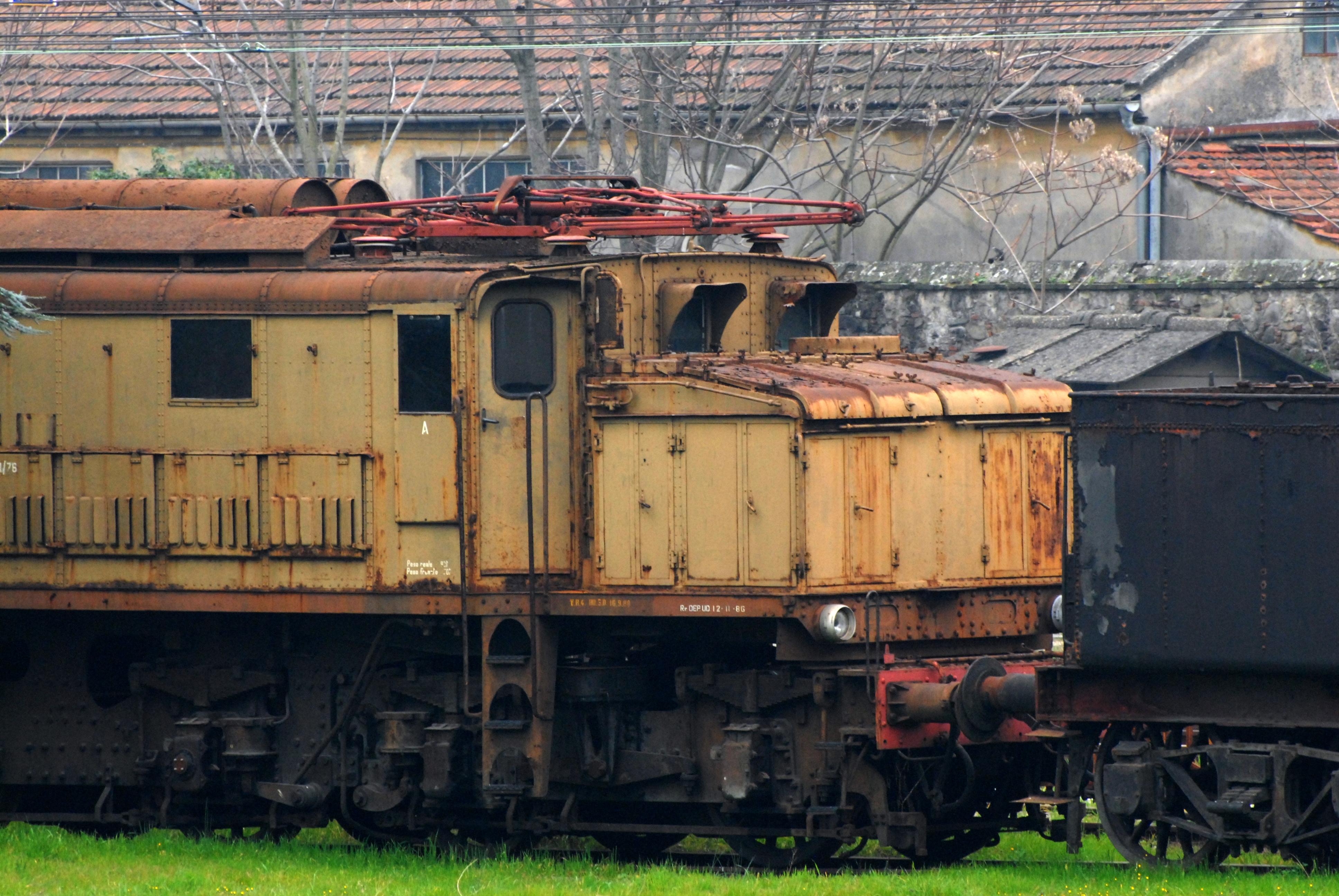 Photos from the FS railway deposit in Pistoia, Italy. FS unit 626.428